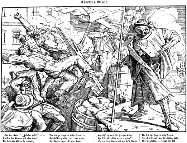 Death, Revolution, Woodprint